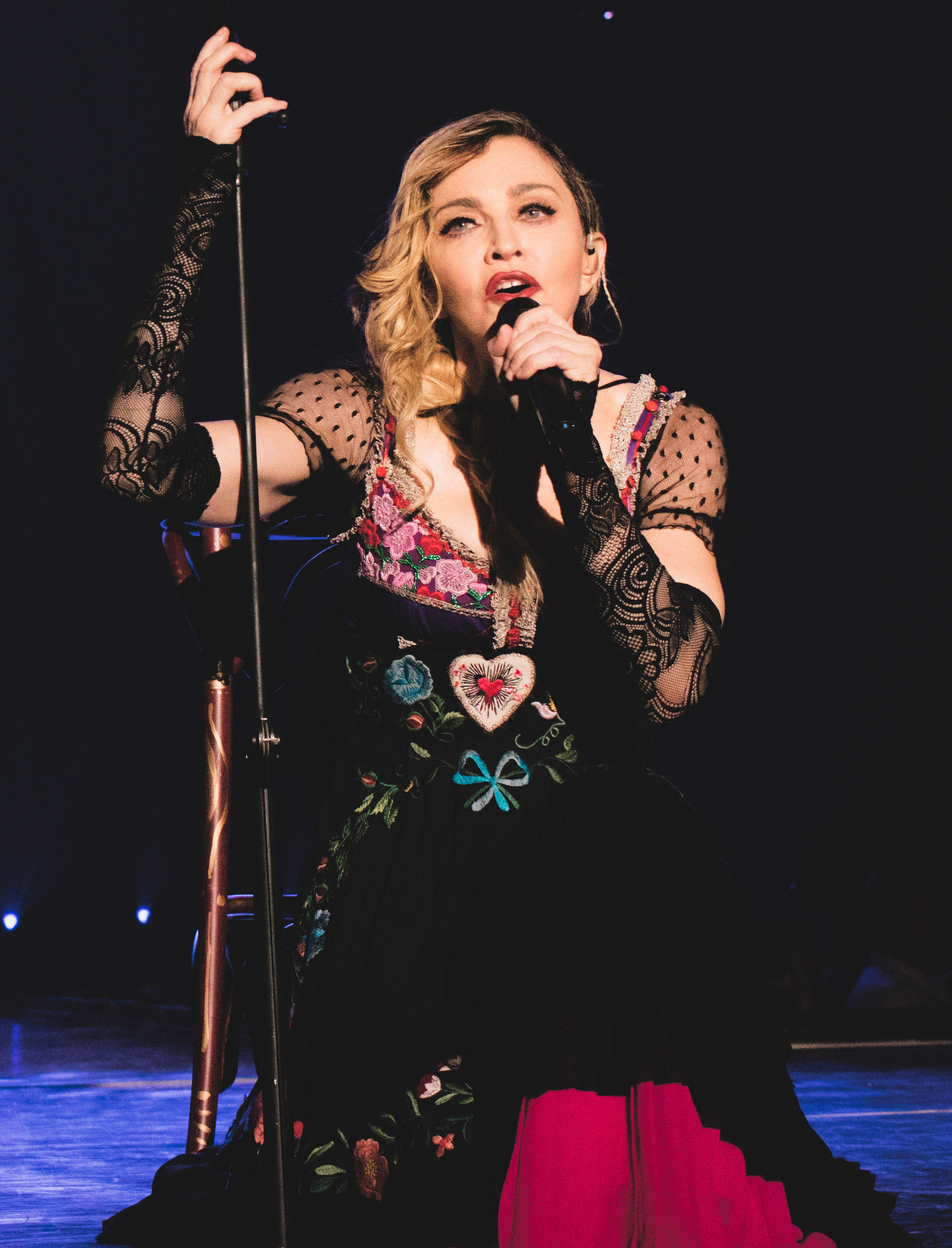 Ghosttown